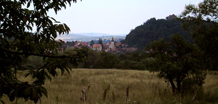 village of Cisnadioara August 2006 Lily106